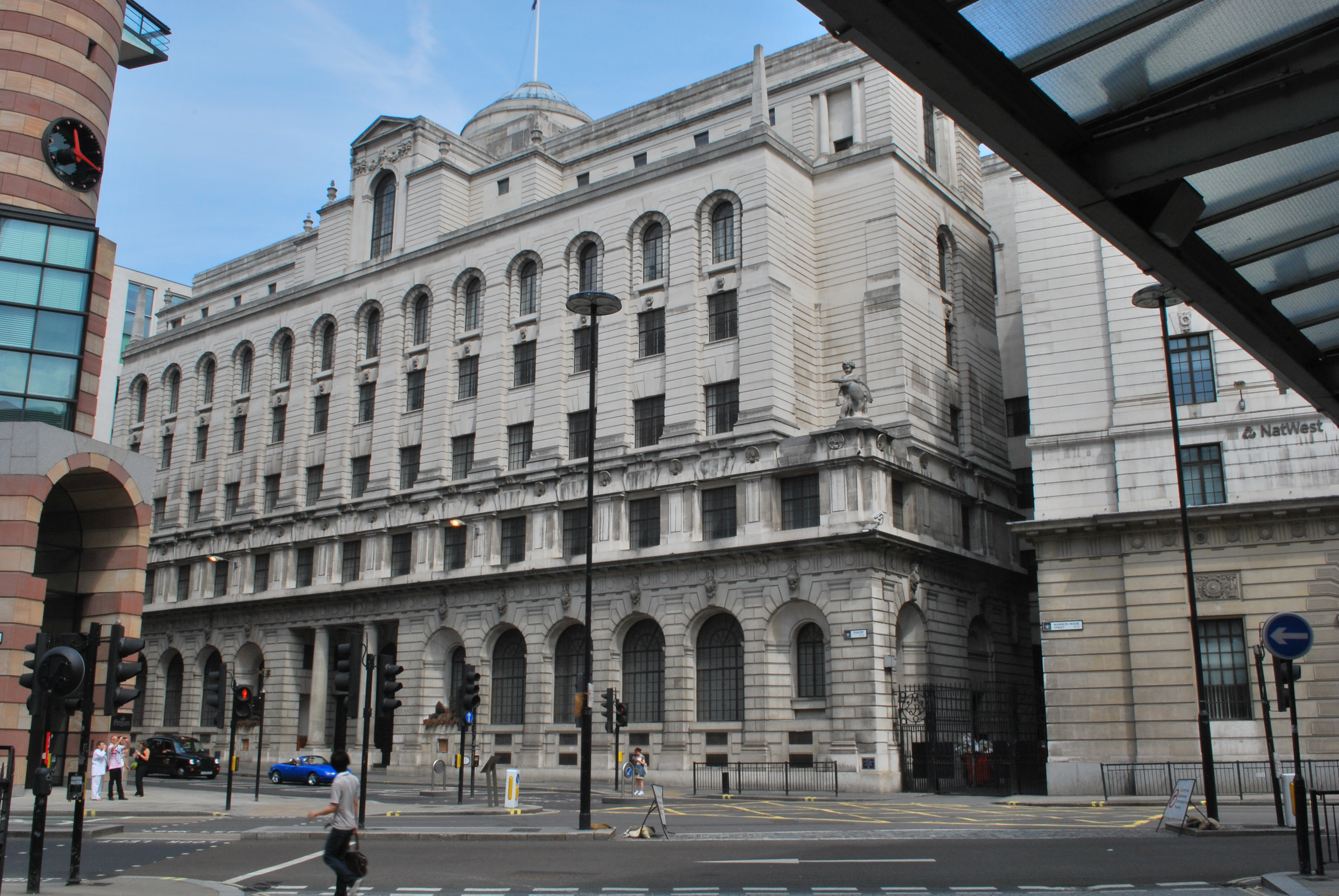 Former headquarters of Midland Bank, designed by Sir E.L. Lutyens and built 1924-39